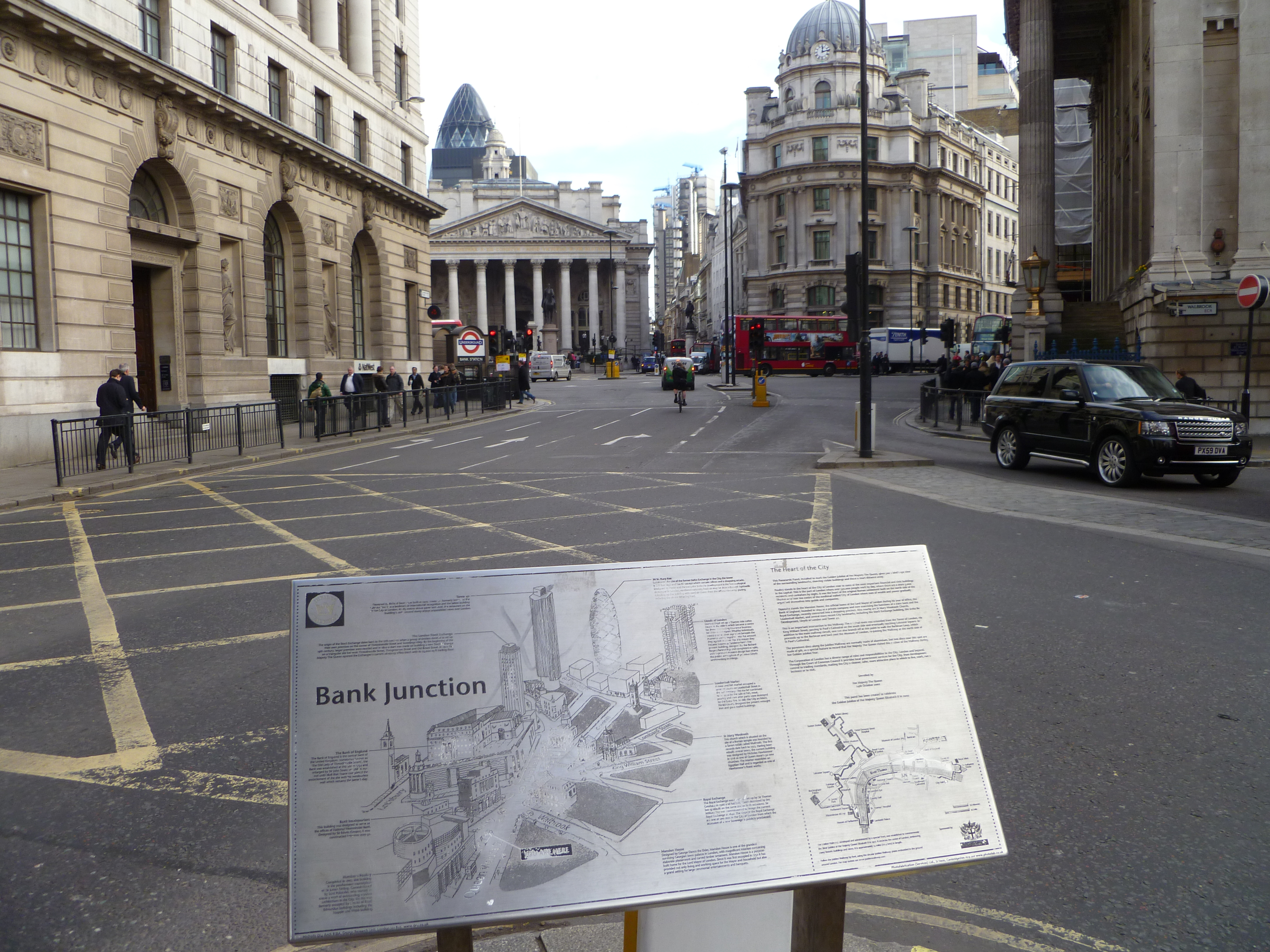 Bank junction, in the City of London